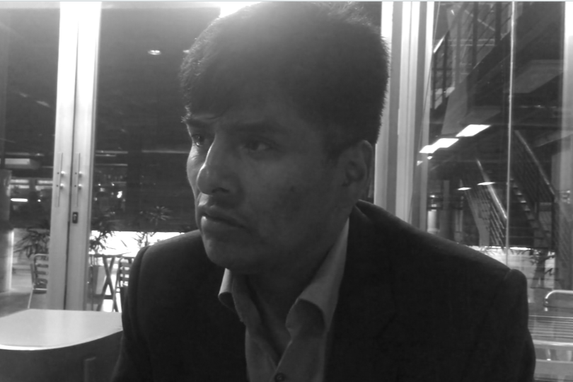 Freddy Mamani, 2015. Screenshot from